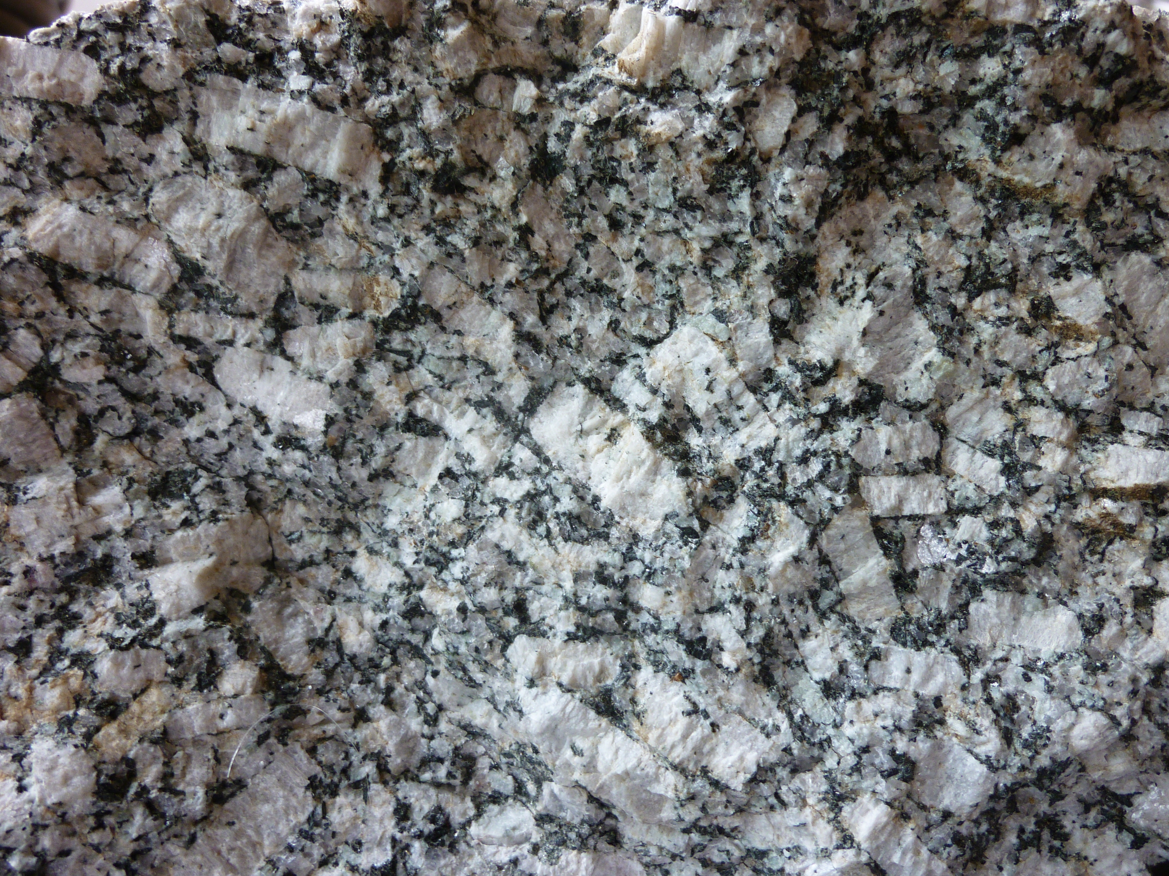 Punteglias Granit, found in Zollikon